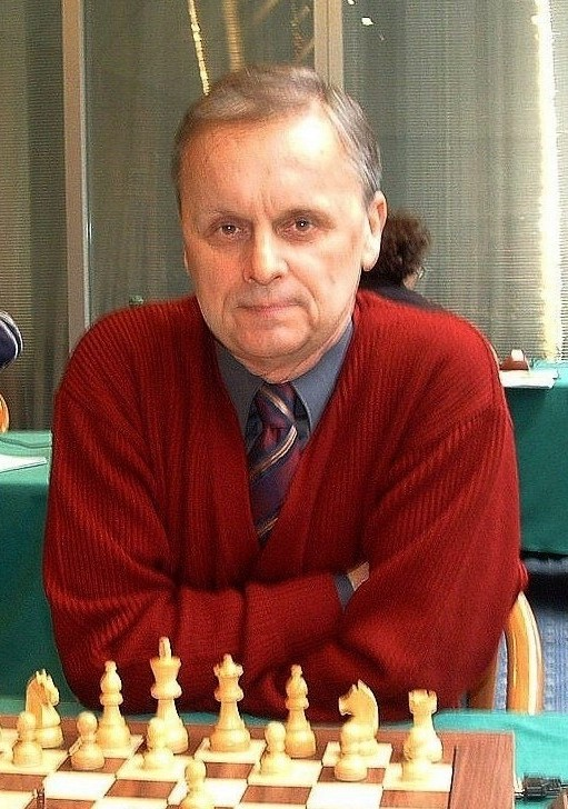 photo of chess Grandmaster Miso Cebalo.